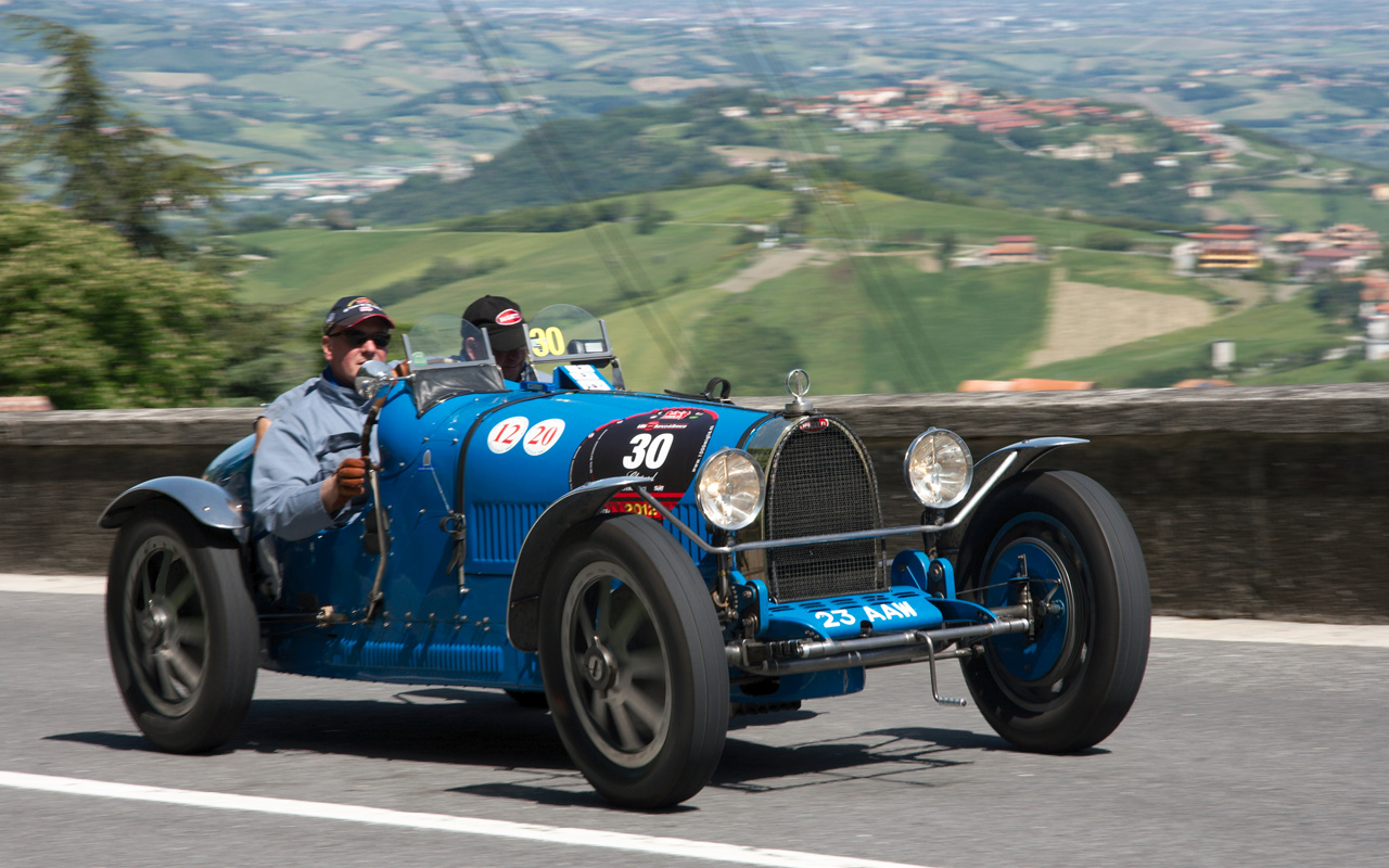 1926 Bugatti Type 35T. Drivers: Julius Kruta, Juergen Zoellter.[1]